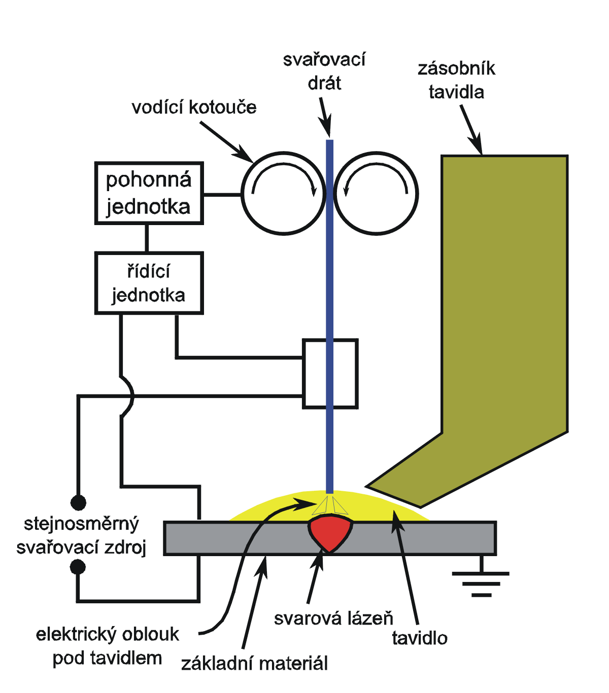 A schematic of submerged arc welding based on (WebCite link)